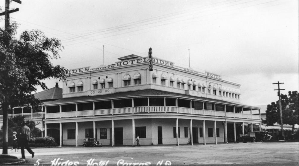 Hides Hotel in Cairns, ca 1937. Originally constructed in 1885, Hides Hotel is situated on the corner of Lake and Sheilds Street.